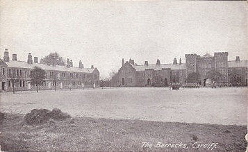 Old Postcard of Maindy Barracks, Cardiff